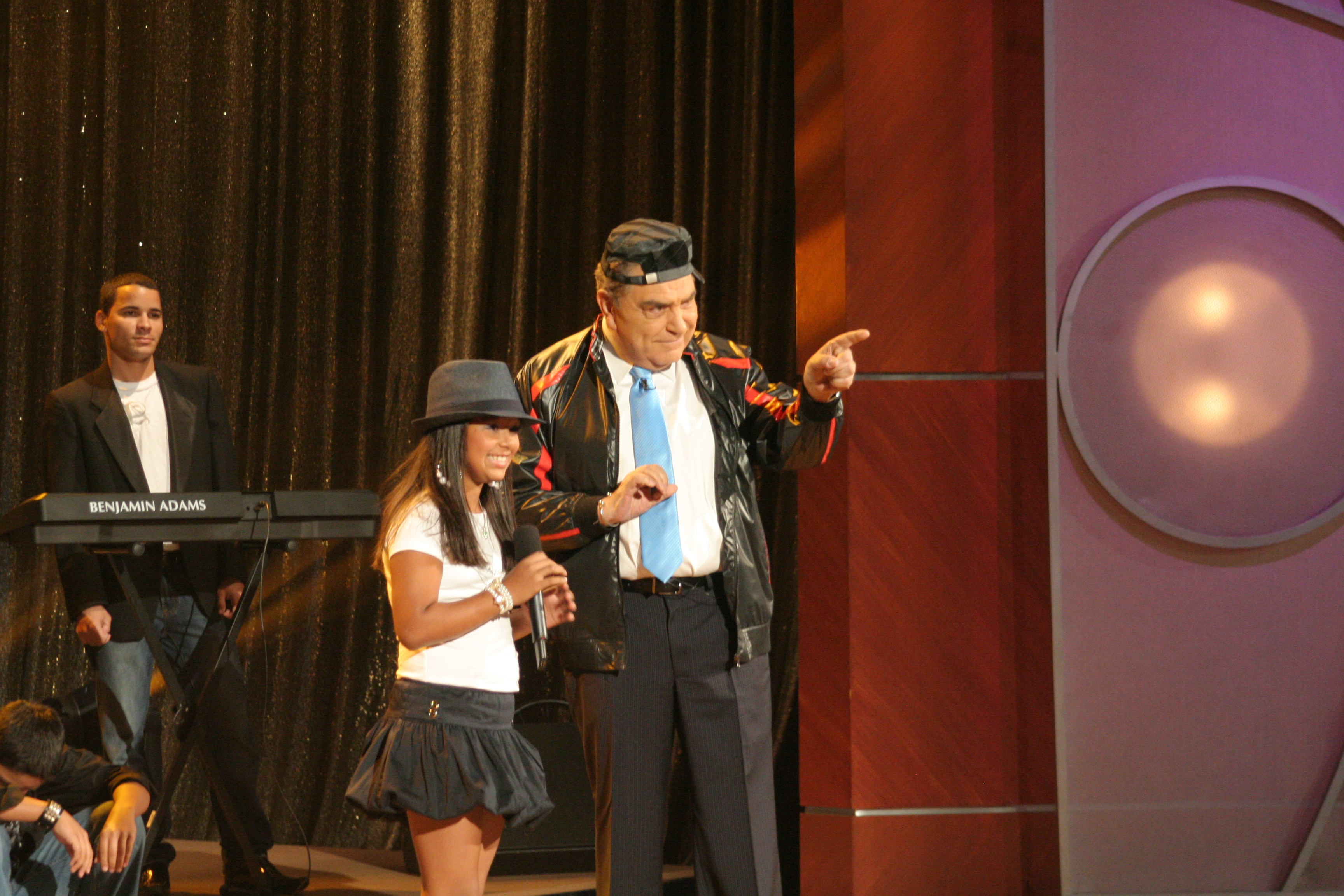 Singer Josenid at Don Franciso presenta on February 10, 2011